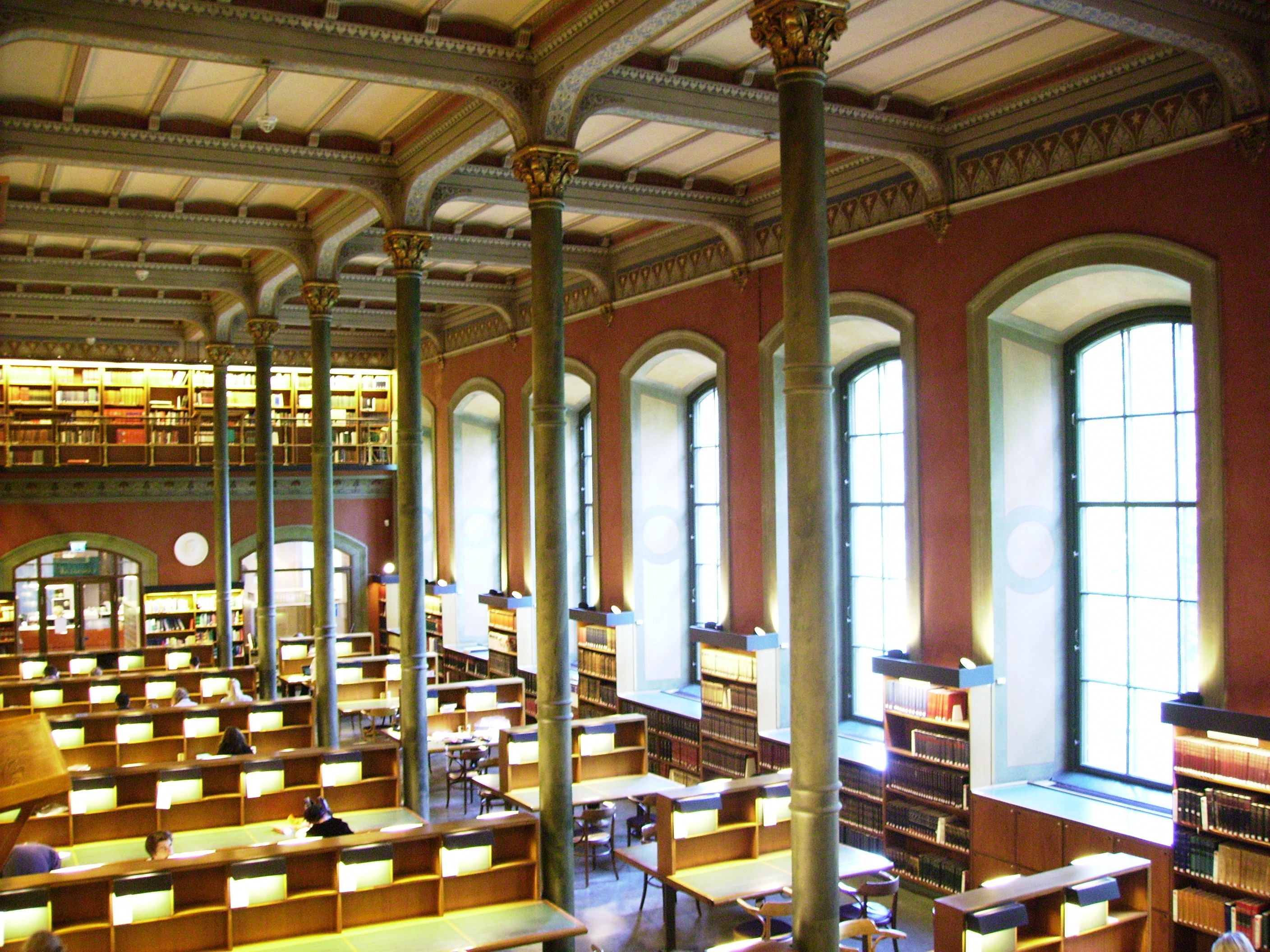 Picture of Kungliga biblioteket interior in Stockholm